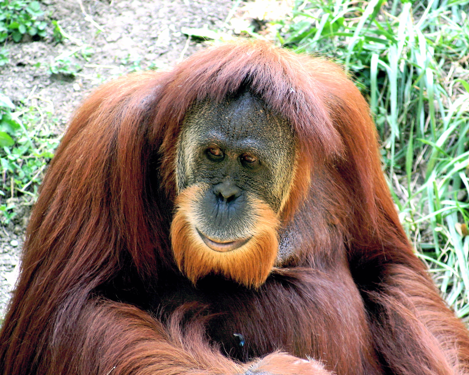 Sumatran Orangutan